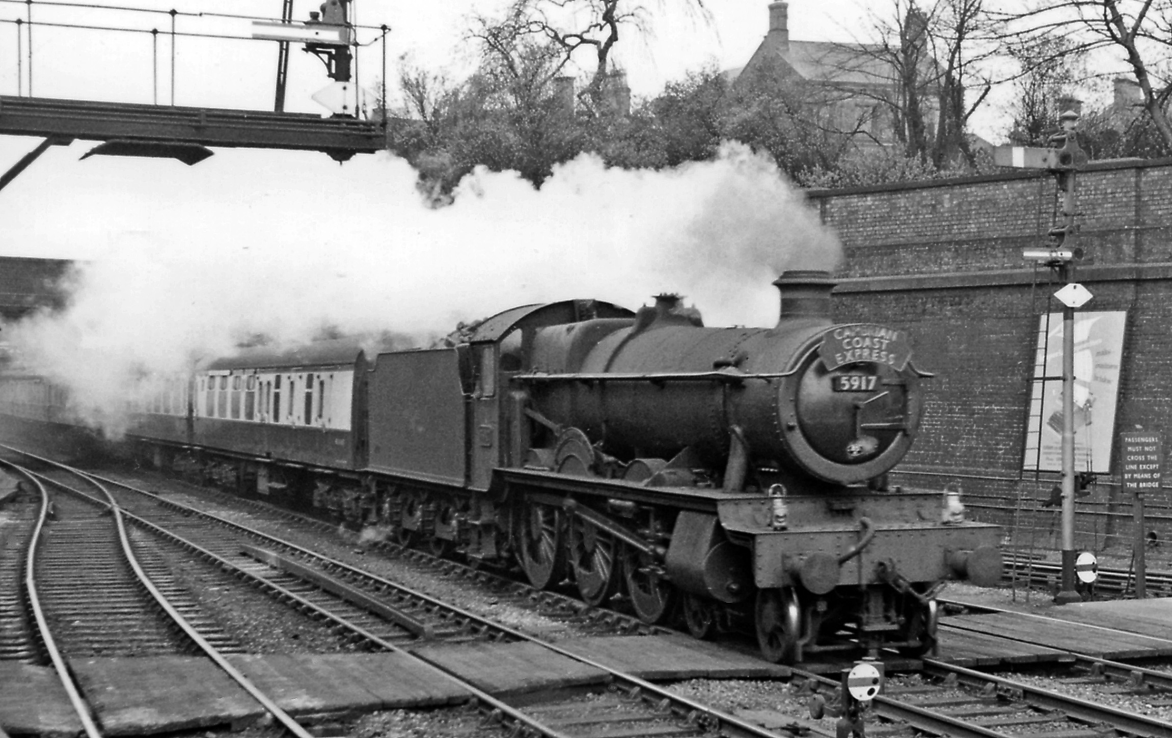 Up 'Cambrian Coast Express' arriving at Wellington (Salop) station. View westwards, towards Shrewsbury etc.; ex-GWR Birmingham - Shrewsbury - Chester main line (Joint with ex-LNWR from Shrewsbury on its line to Stafford). The Express had left Pwllheli at 09.55, was joined at Machynlleth by a section that left Aberystwyth at 11.45 and ran via Welshpool to Shrewsbury, where it reversed and this day the 4-6-0 No. 5917 'Westminster Hall' (built 7/31, withdrawn 9/62) took it on the next stage to Wolverhampton (Low Level).